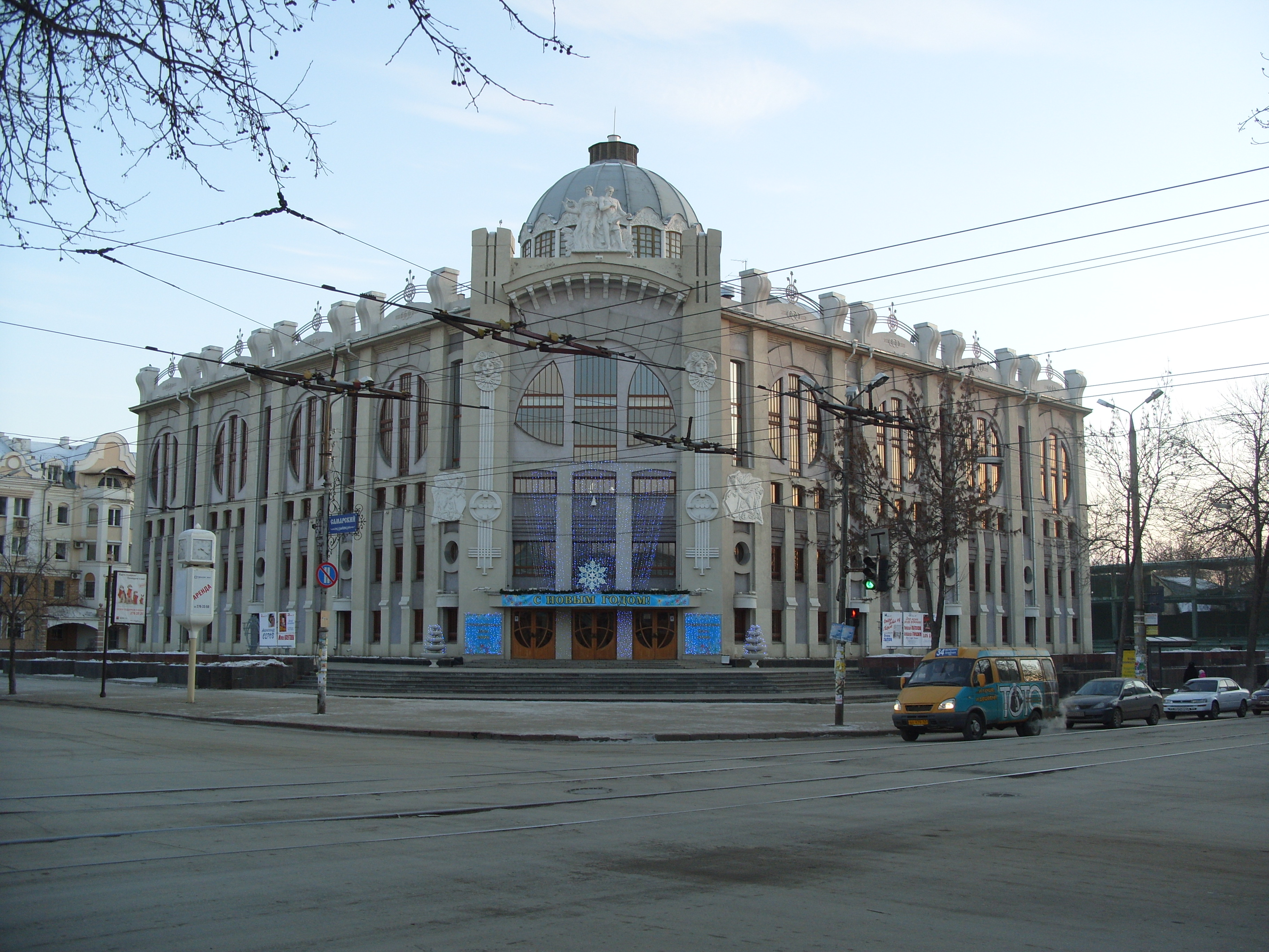 Samara, Russia